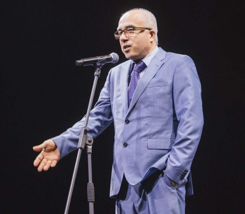 Malik Hatazhaev gives a speech at Lesta Studio's New Year party at Tinkoff Arena, Saint-Petersburg, Russia.